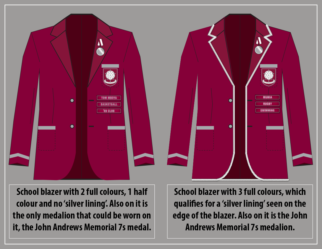 Illustration showing the Lenana School blazer in 2 forms. The one on the left has no 'silver lining', while the one on the right has. 'Silver lining' was a sports motivational award issued to students who attained 3 full colours in the same. Also on the blazer is the only medalion a student could wear, either the gold or silver medalists of the John Andrews Memorial 7s tournament for schools held at Lenana School grounds.